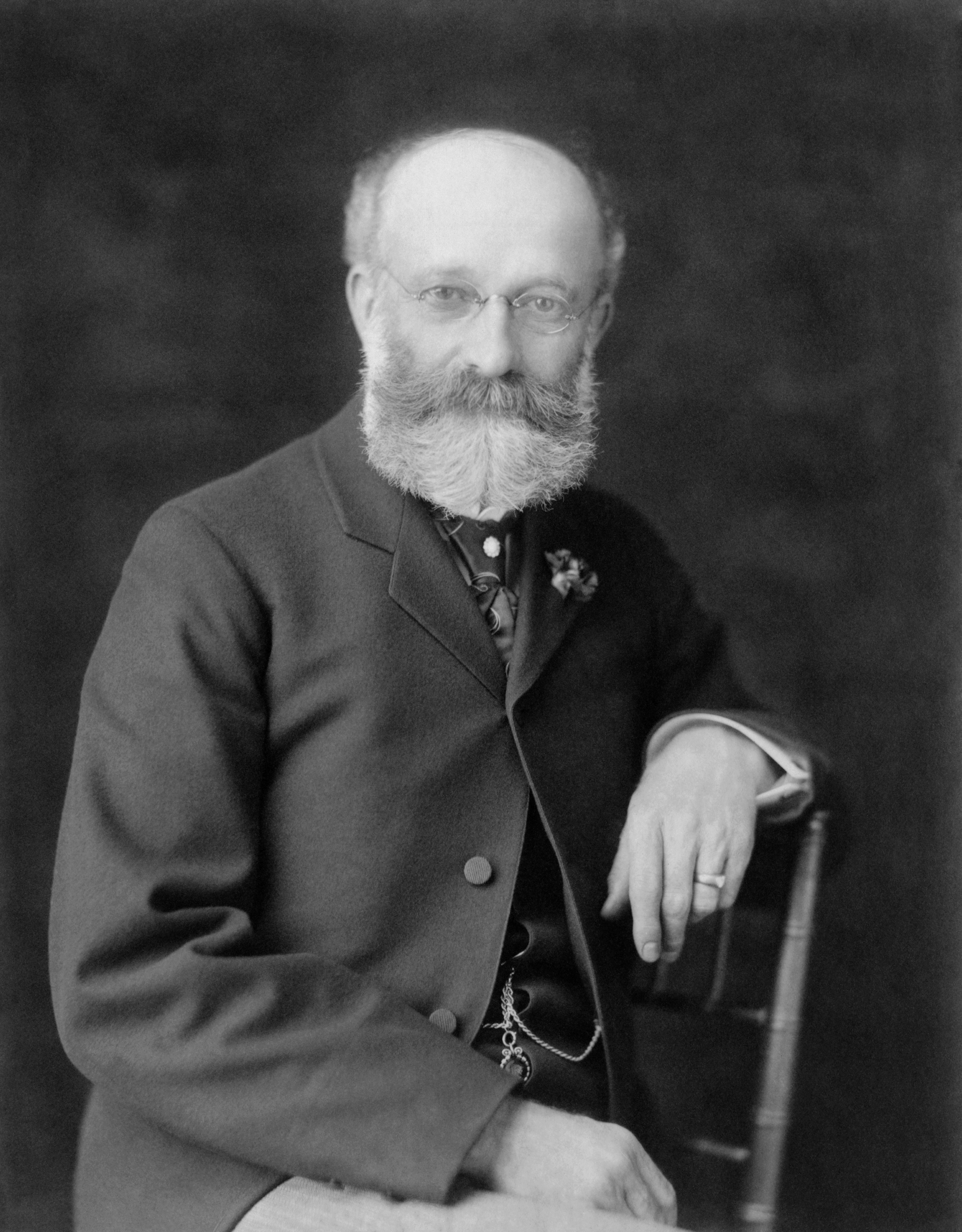 William H. Crook, bodyguard to Abraham Lincoln, and subsequently in the service of eleven other American Presidents.